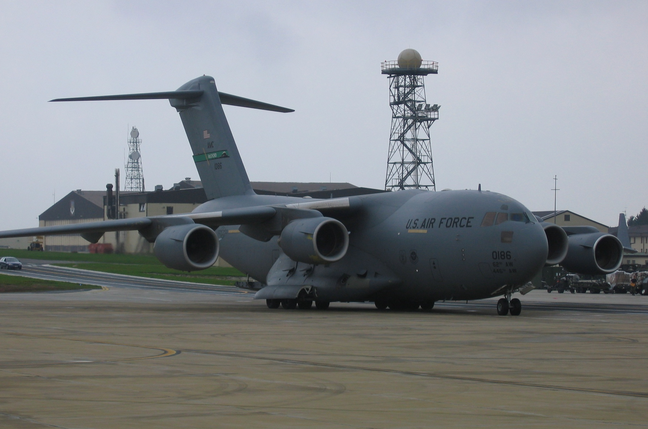 After construction at Spangdahlem, large transport aircraft (Galaxy) [sic] can now land at the air base without problems. (Aircraft shown is a Globemaster III)